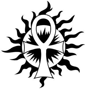 tattoo of Anastacia